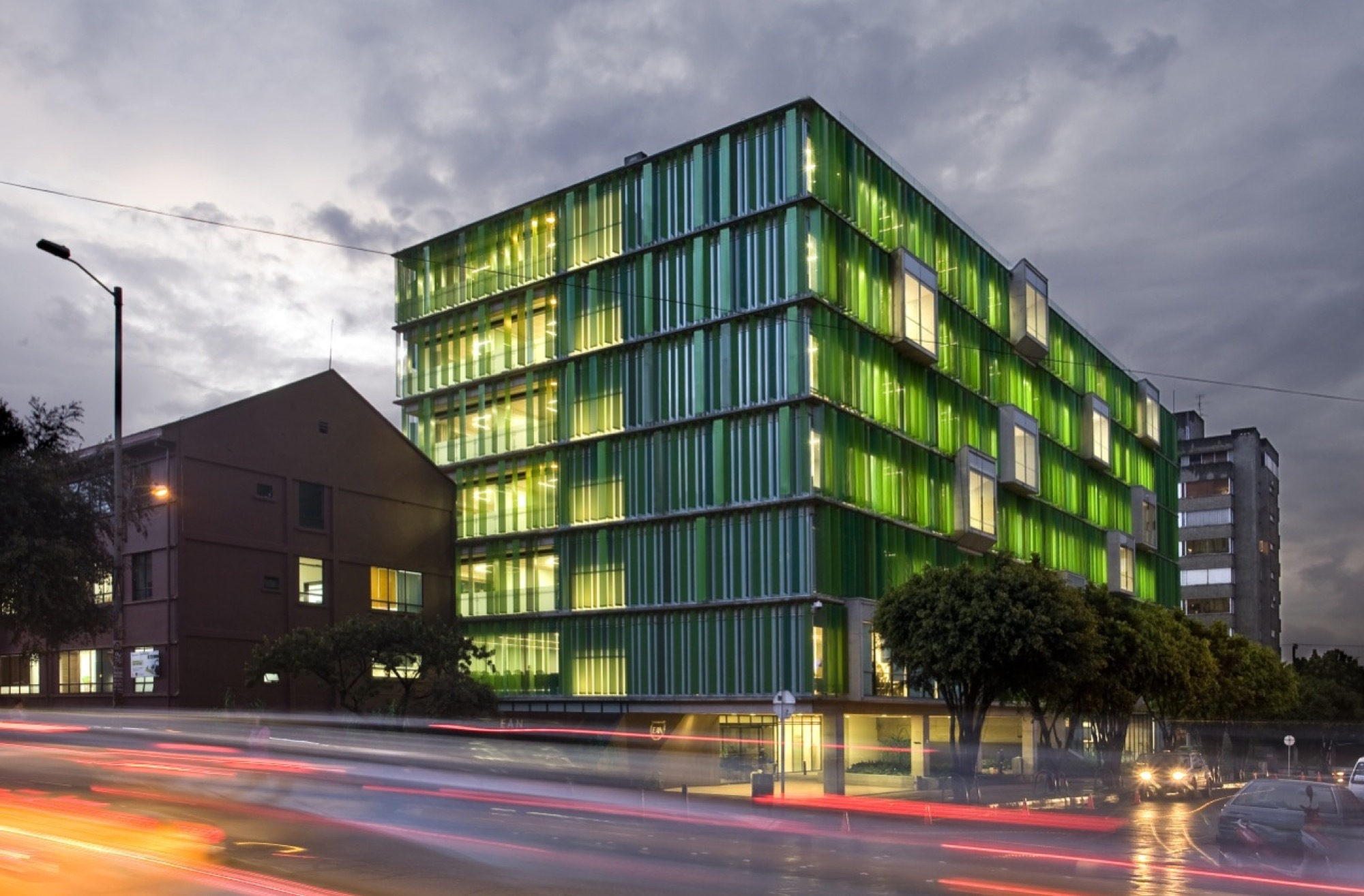 EAN University - Green Building